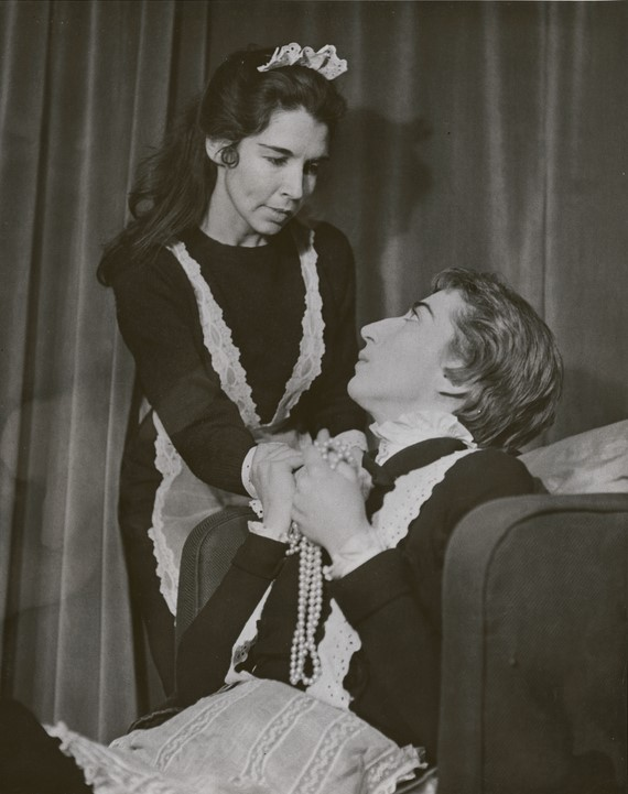 Phena Darner (left) & Julie Bovasso in the play The Maids - publicity still (cropped)